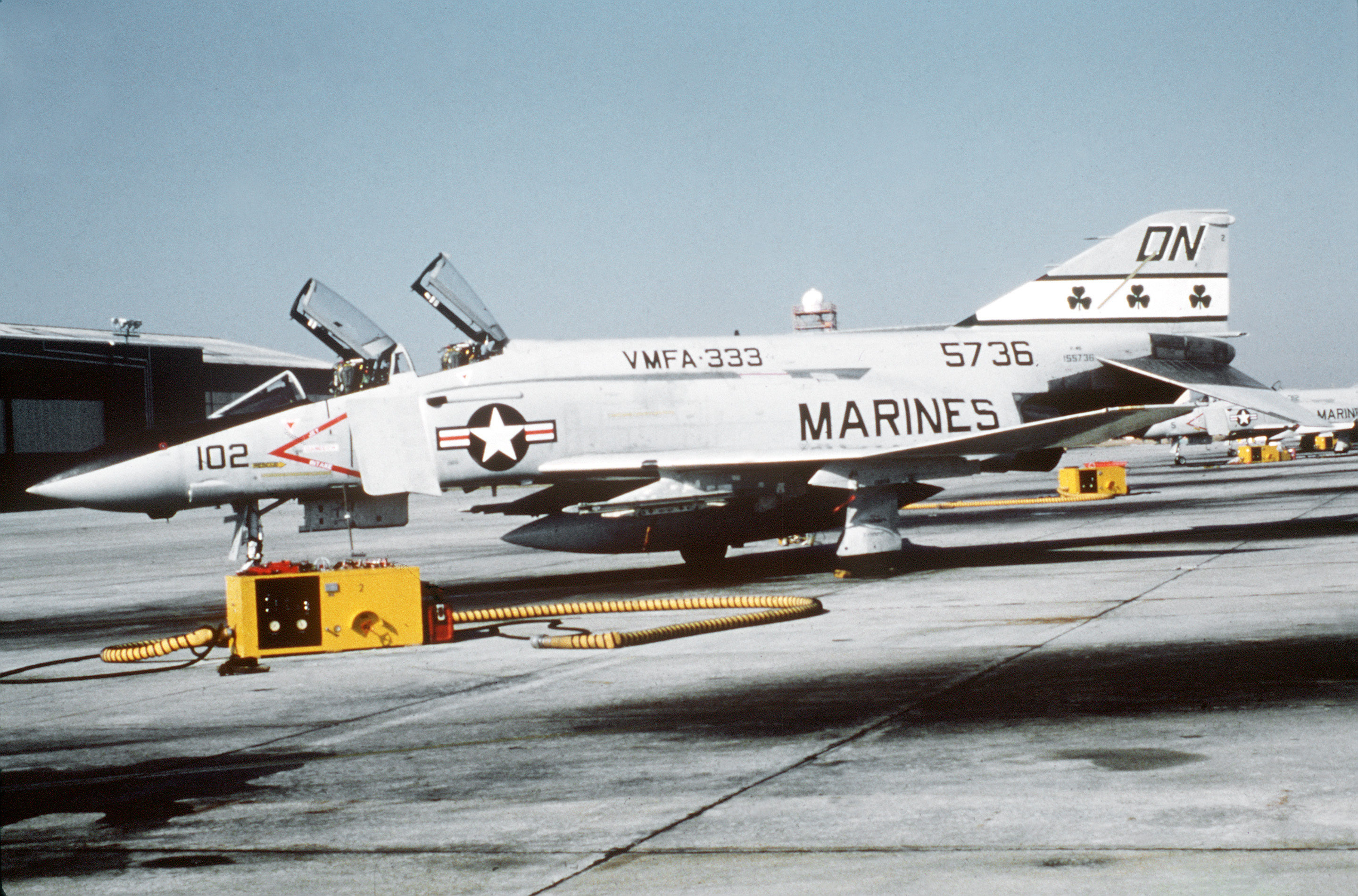 A U.S. Marine Corps McDonnell Douglas F-4S Phantom II aircraft (BuNo 155736) from Marine fighter-bomber squadron VMFA-333 Fighting Shamrocks sitting on the flight line at Marine Corps Air Station, Cherry Point, North Carolina (USA) in 1979. Note that the aircraft has not yet received the slatted wings. This aircraft (c/n 2911) was built as an F-4J and was converted to an F-4S. It was retired to the AMARC as 8F0312 on 27 October 1988.